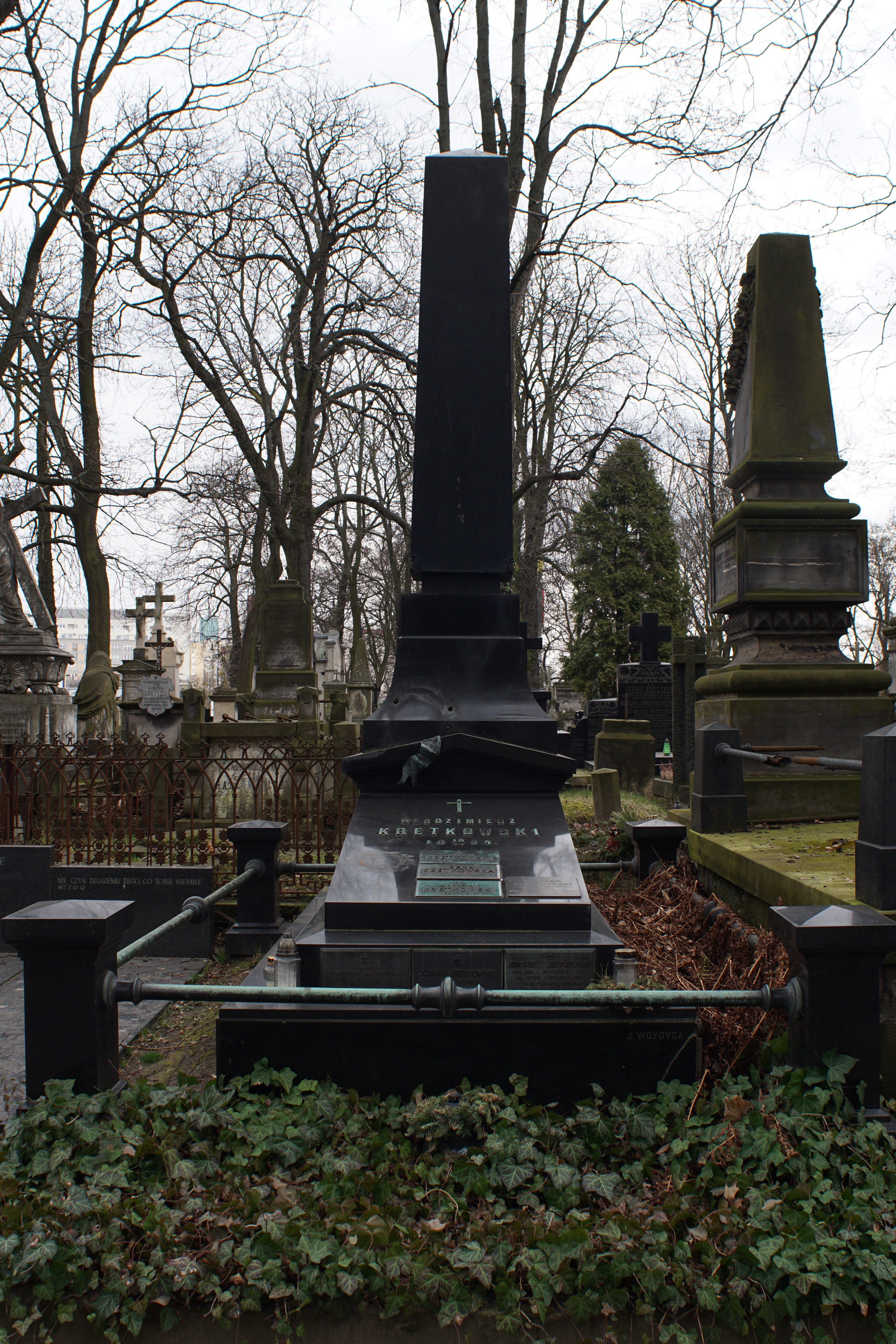 The grave of Ryszard Kiersnowski at the Powązki Cemetery (section 3, row 6, grave 10, 11)